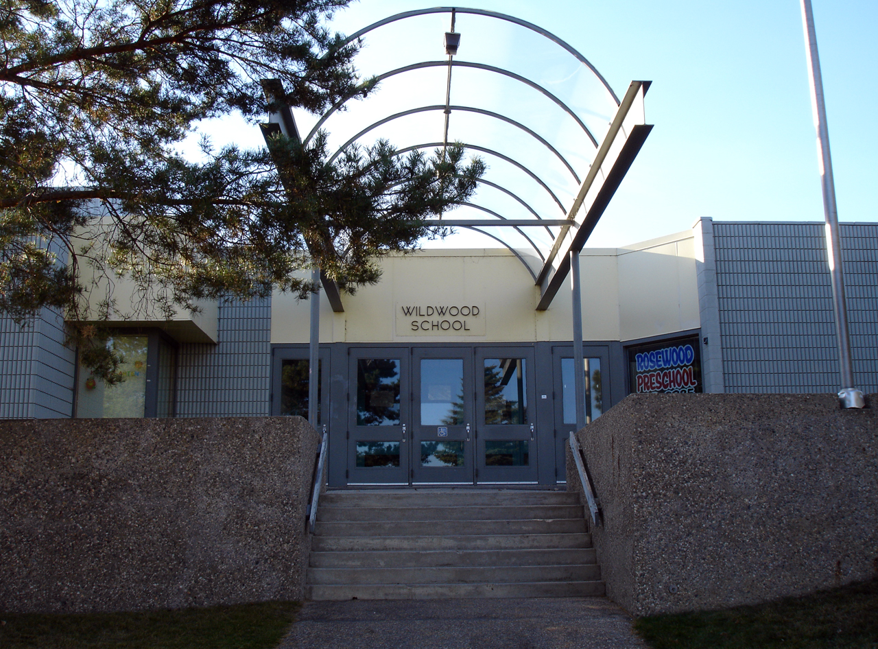 Wildwood School, an elementary school of the Saskatoon Public School Division in Saskatoon, Saskatchewan, Canada.